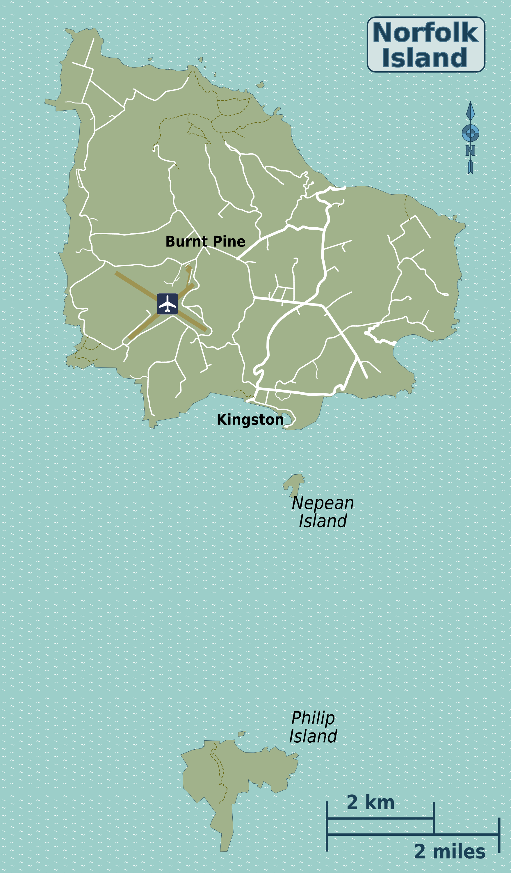 Norfolk Island travel map